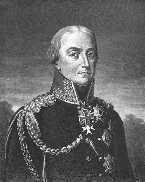 General Friedrich Graf Bülow von Dennewitz, a capable Prussian corps commander who, in the campaign of 1813, defeated the French at Grossbeeren and Dennewitz. He also played a prominent part at Waterloo in 1815.